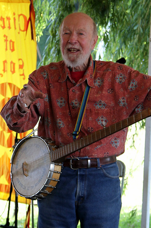 Pete Seeger teaching William Boyce "Alleluia" round in Croton-on-Hudson, New York